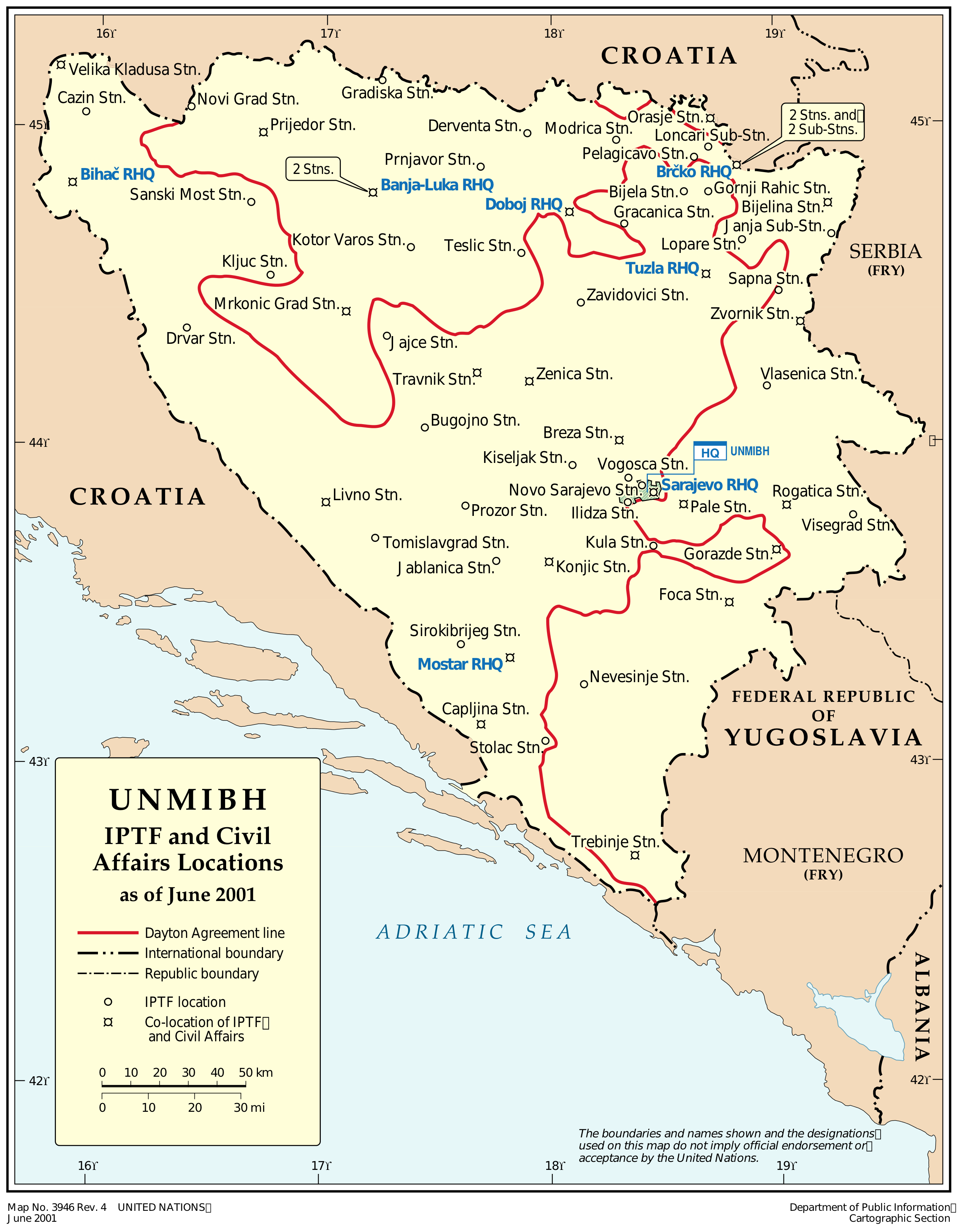 United Nations Mission in Bosnia and Herzegovina (UNMIBH) deployment map as of June 2001.